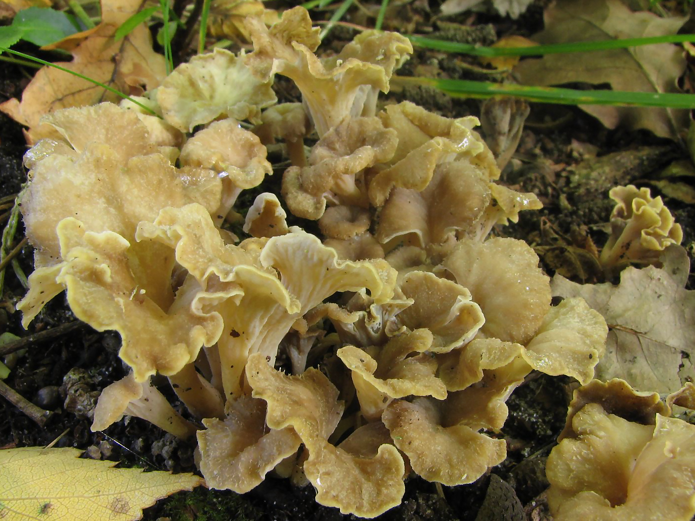 Cantharellus melanoxeros Desm. Location: Gotland, Sweden For more information about this, see the observation page at Mushroom Observer.